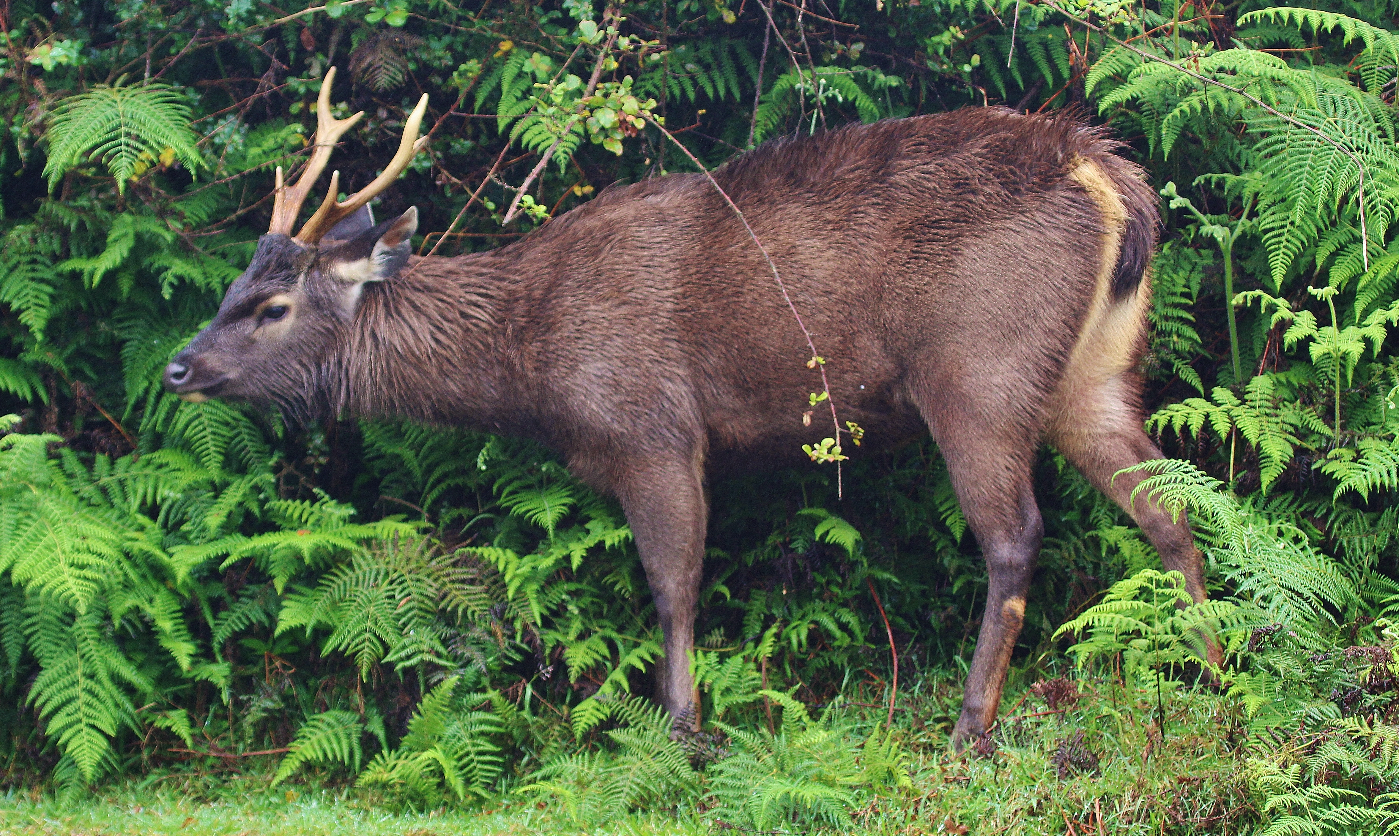 A buck Sambar deer in Horton Plains National Park, Sri Lanka.